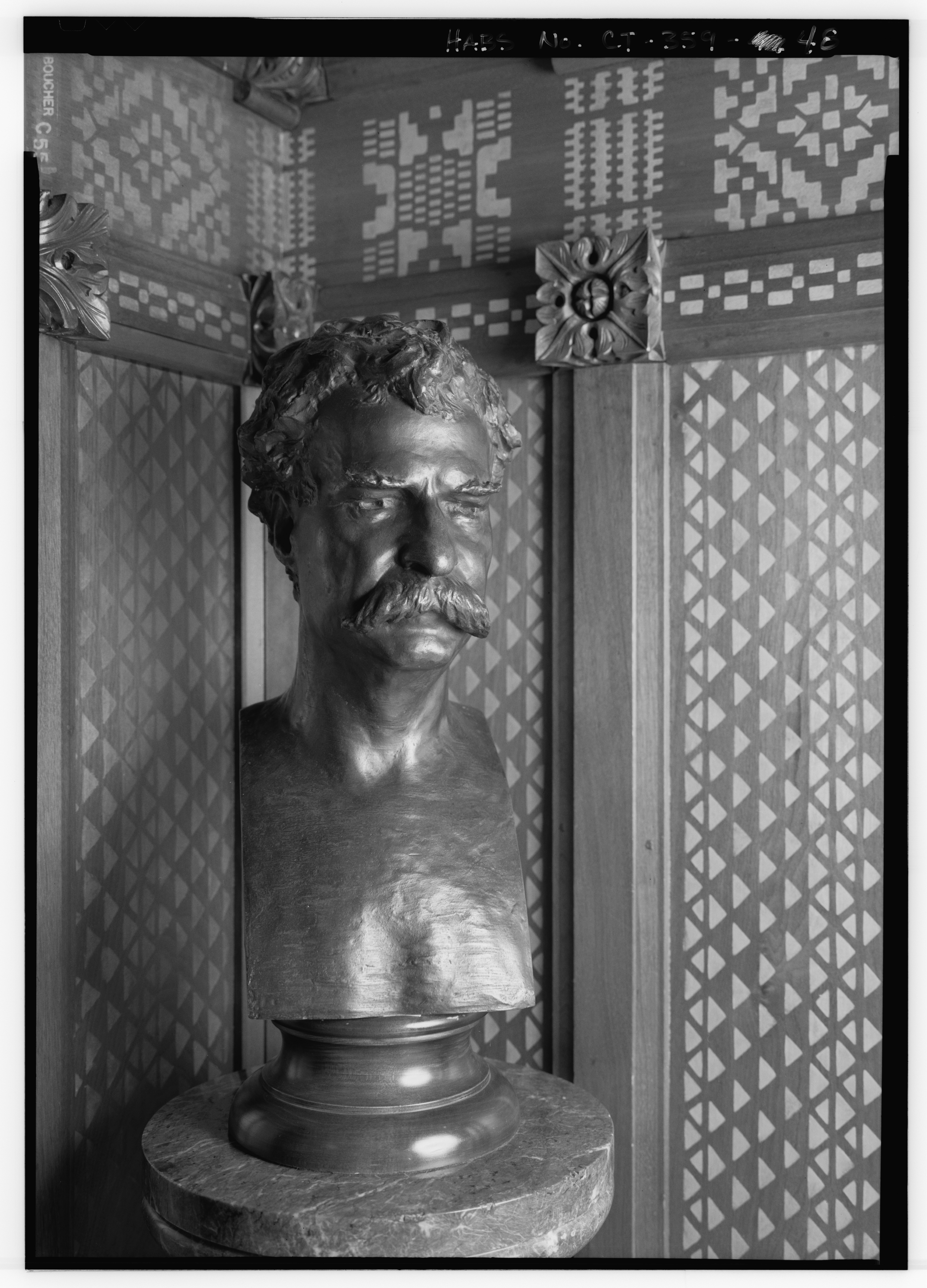 Bust of Mark Twain — in the Mark Twain House. 531 Farmington Avenue, Hartford, Connecticut. Photo from the HABS—Historic American Buildings Survey of Connecticut. Credits This image is from the Library of Congress Historic American Building Survey (HABS), Call Number: HABS CONN,2-HARF,16-. Photographer: Robert Fulton, 1967.